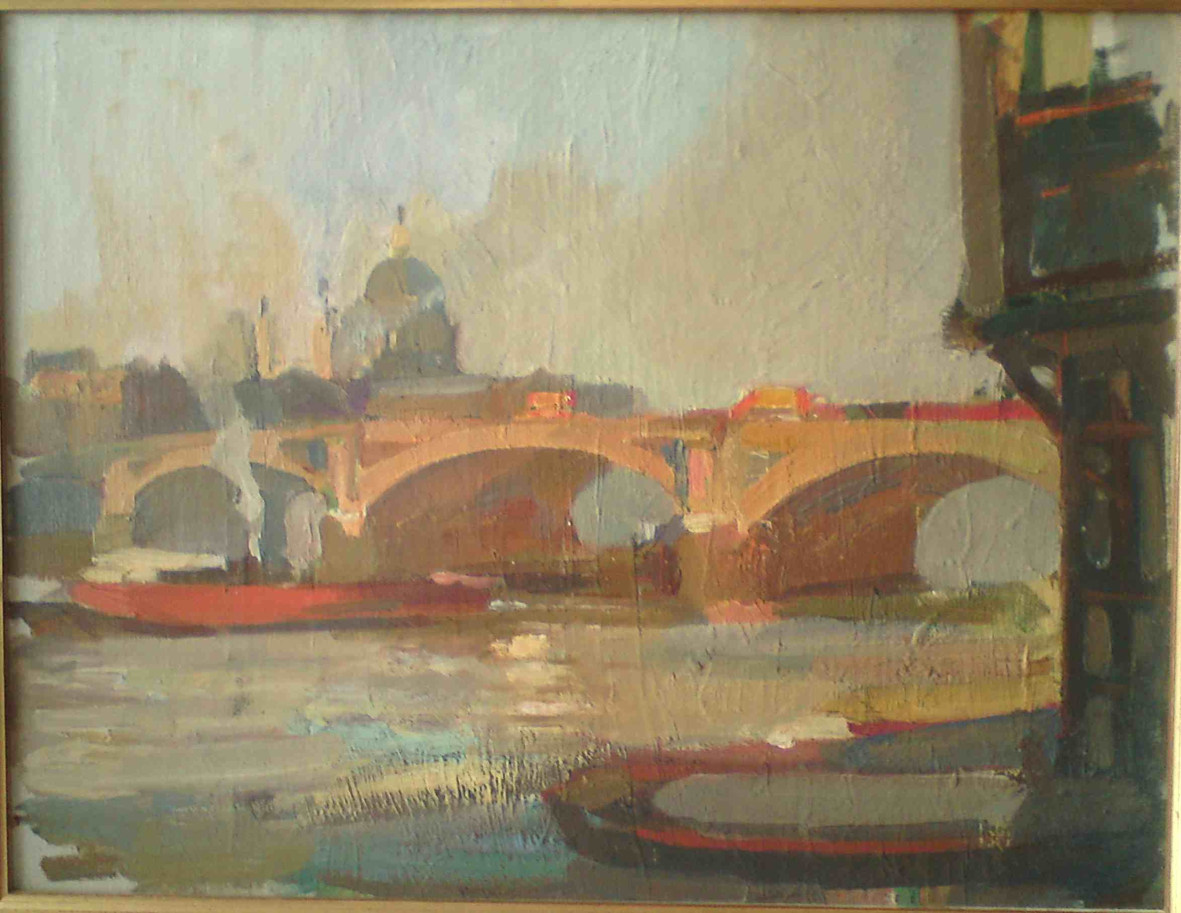 Oil on canvas. 395x298 mm. Painting of Blackfriar's Bridge, London, 1923, seen from the South Bank of the Thames. Painted at the same time as a similar work by William Gillies while the two artists were on their way to Paris. The view is almost identical to that of St Paul’s from the Surrey Side by Charles François Daubigny (dated 1871-3) in the National Gallery, London. This painting was generously gifted by the late David G.D. Barr.